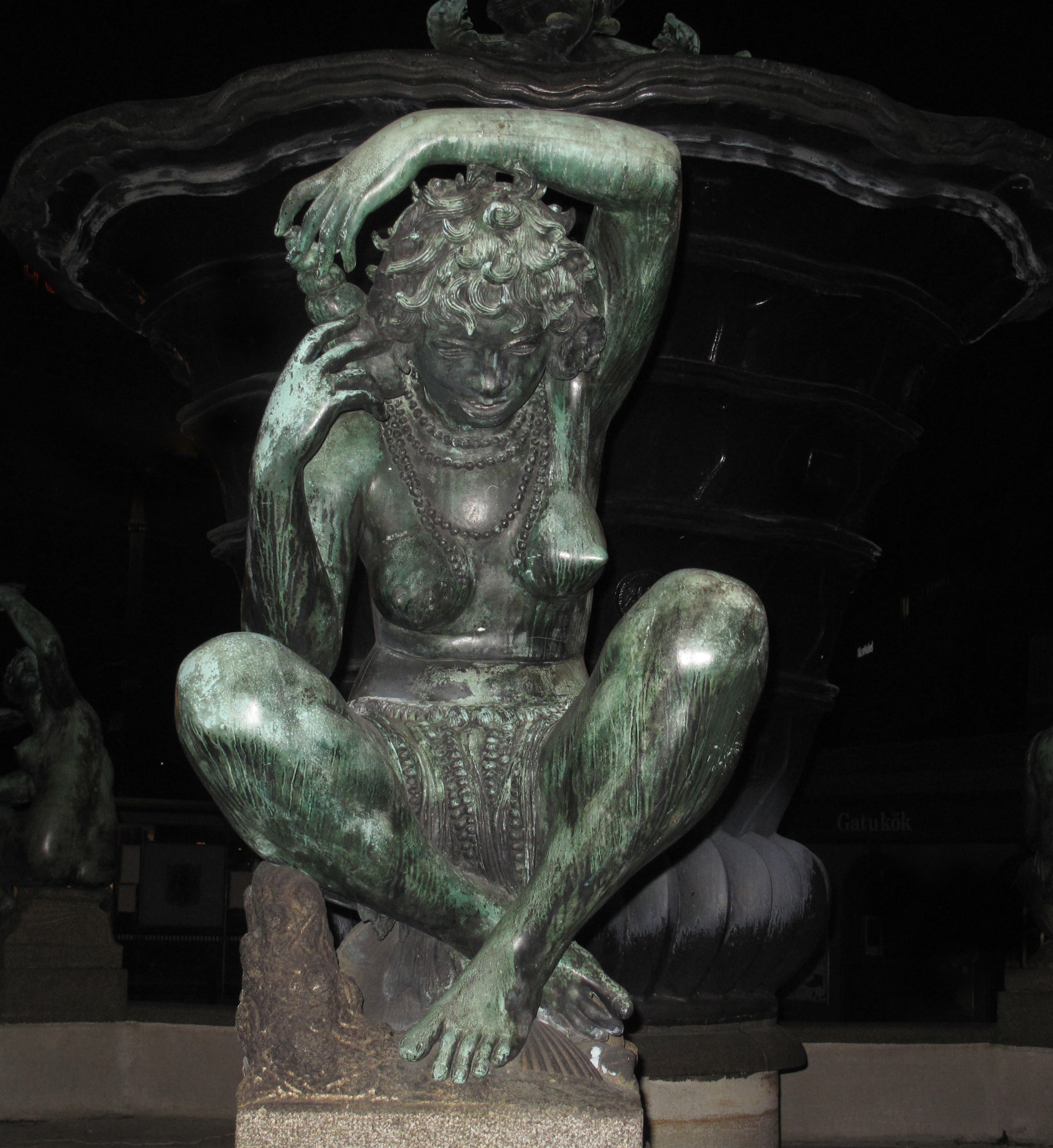 Järntorgsbrunnen i Göteborg av Tore Strindberg.